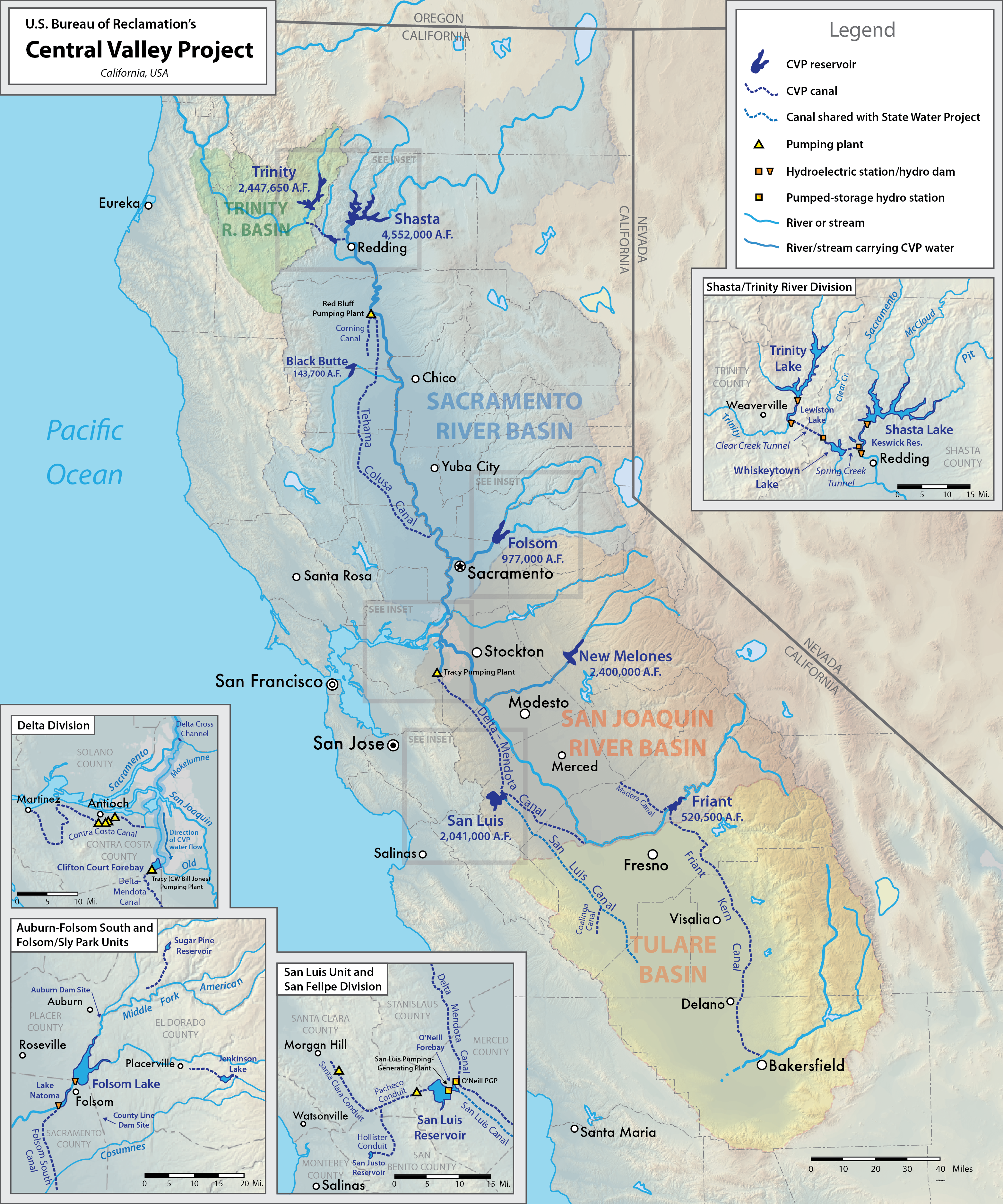 Map of the federal Central Valley Project in California, USA. Intended to replace File:CVP_Map.png. Smaller details have been removed from main map and added to inset maps for easier reading. Changes: Added shared segment of California Aqueduct (San Luis Canal), Coalinga Canal, Santa Clara Conduit. Added watershed basin boundaries. Fixed alignment of Contra Costa Canal. Red Bluff diversion dam was decommissioned in 2013, replaced with pumping plant. Shaded relief from US Geological Survey.